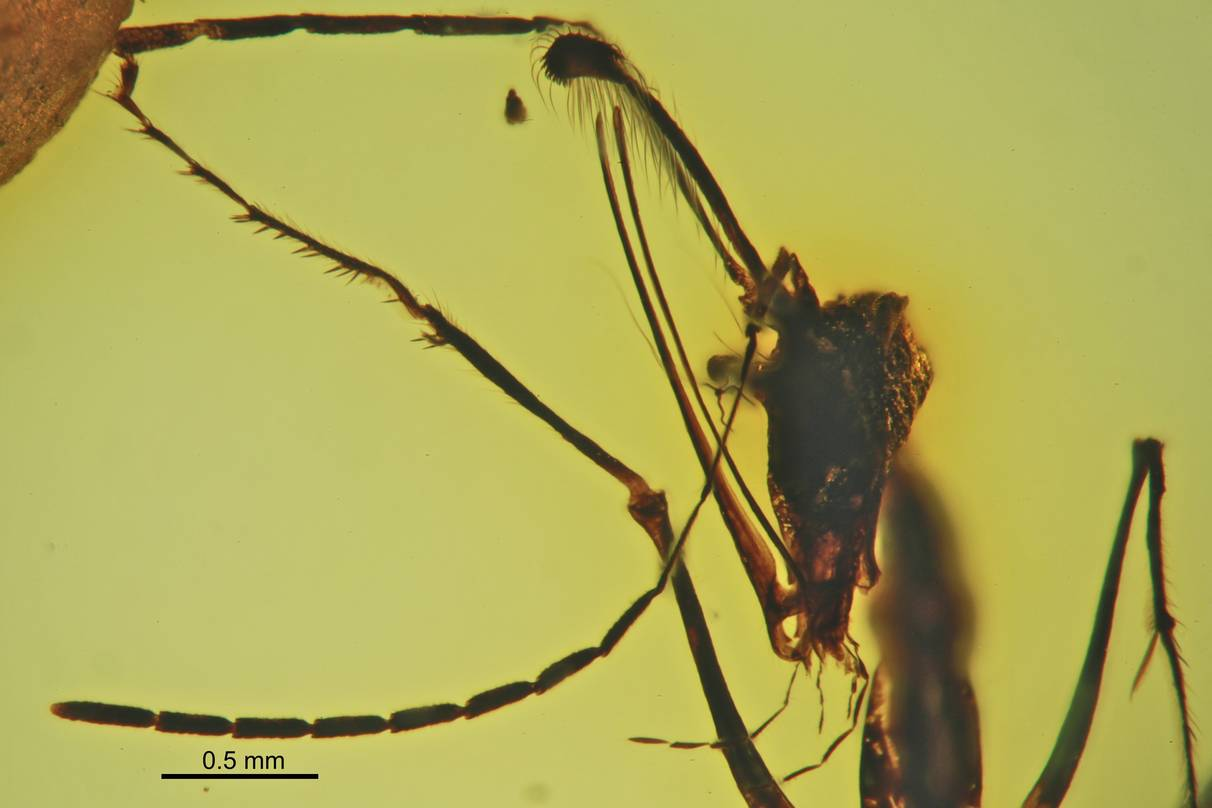 Provile view of a Ceratomyrmex ellenbergeri head. Specimen number SEC-BU39-003; Siegardh Ellenberger private collection, Germany Burmese amber, Earliest Cenomanian; Kachin State, Myanmar